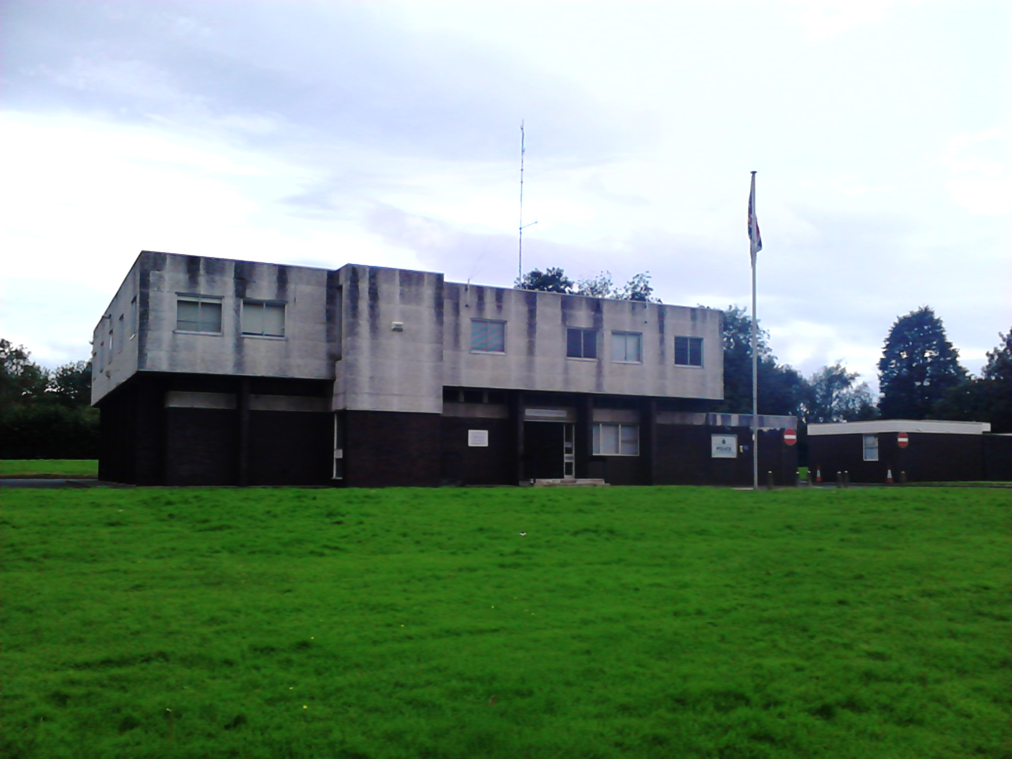 Photo taken at Bebington, Merseyside, England.